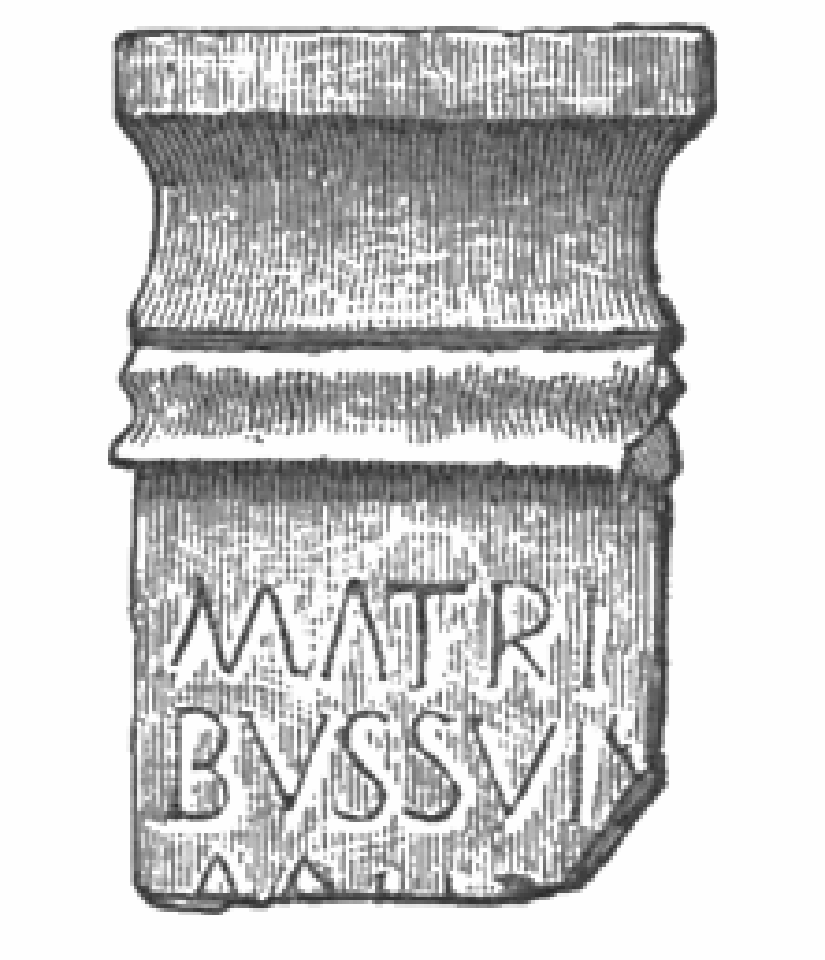 Altar dedicated to the Mother Goddesses, Hesket House, Port Carlisle. Port Carlisle lies east of milecastle 79, 1.6 km. east-south-east of Bowness-on-Solway.